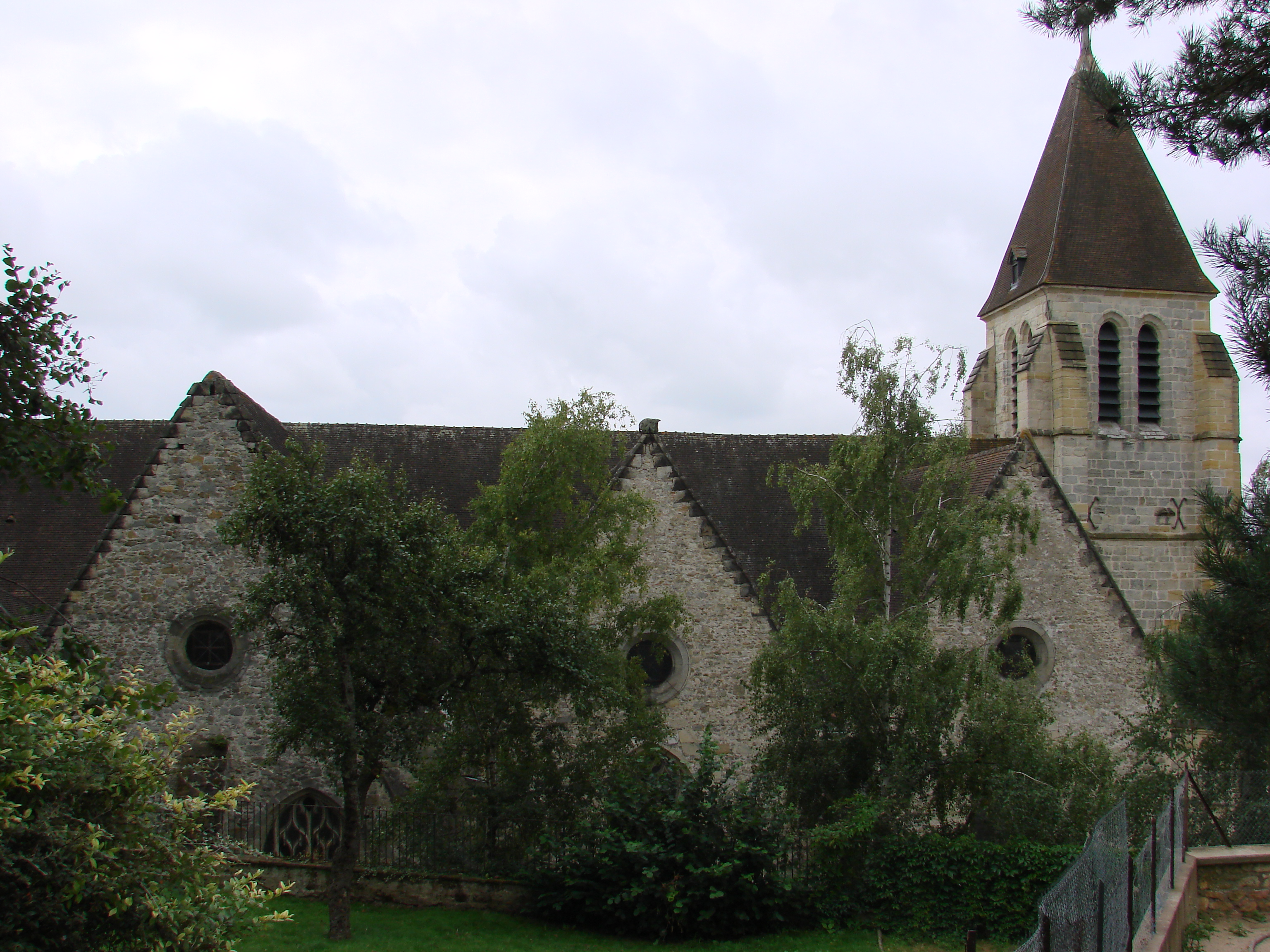 Church Notre-Dame (Our Lady) of Vierzon (France)